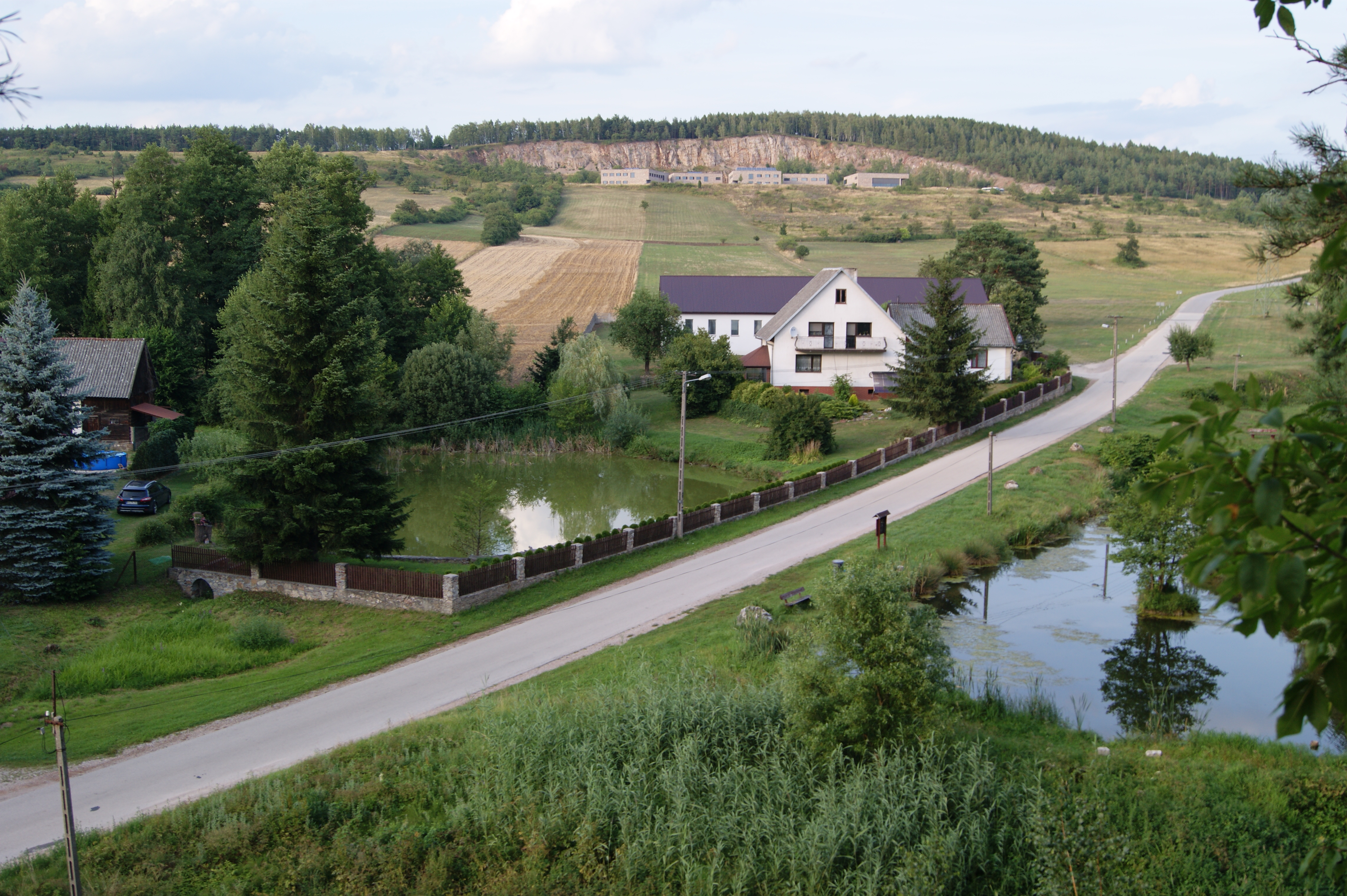 Eastern part of Korzecko and the road to Chęciny Castle